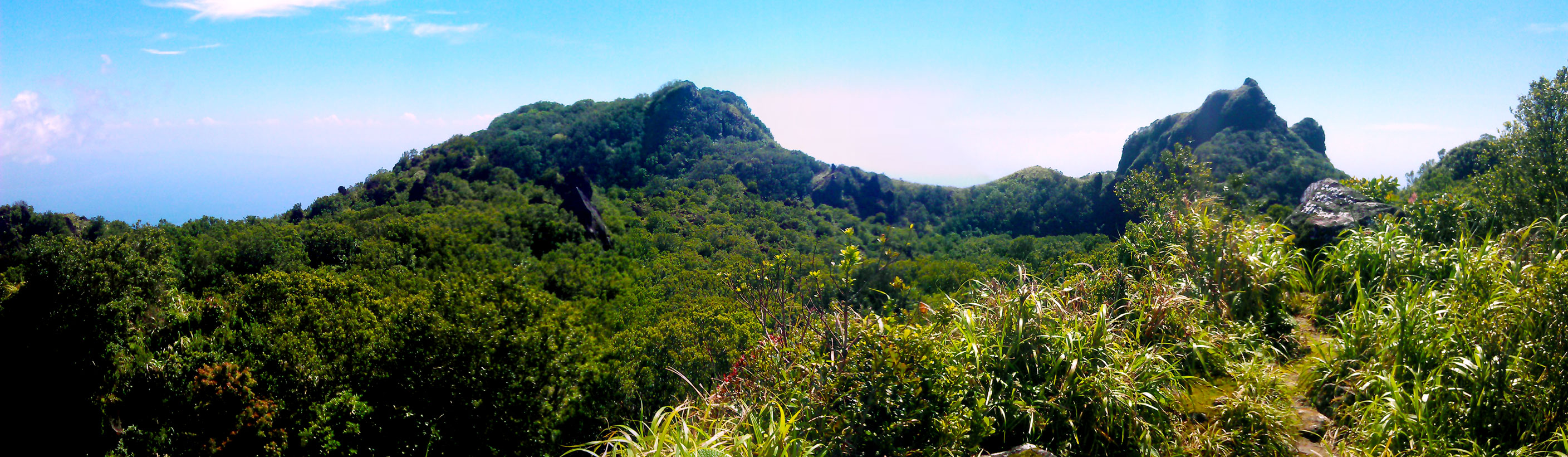 A panorama of Hibok-Hibok Volcano summit in the island province of Camiguin at 1332 meters above sea level. Taken by Schadow1 Expeditions during its mapping expedition of the volcano's Yumbing to Ardent traverse trail.